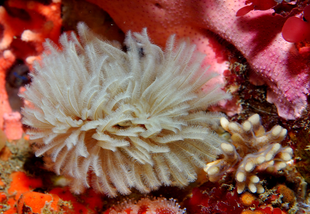 Sabellidae (feather duster worm)